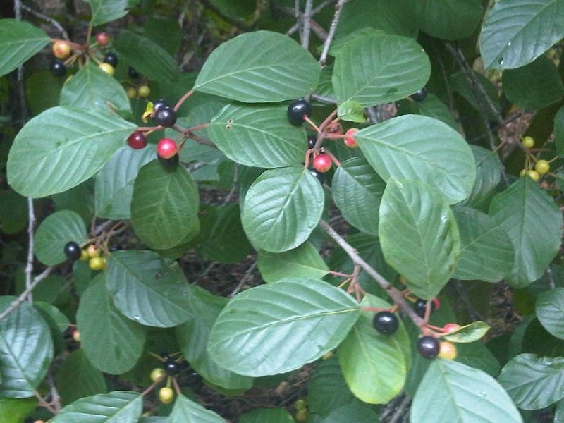 Alder Buckthorn (Frangula alnus; syn. Rhamnus frangula) fruits and leaves in WWT London Wetland Centre, England.